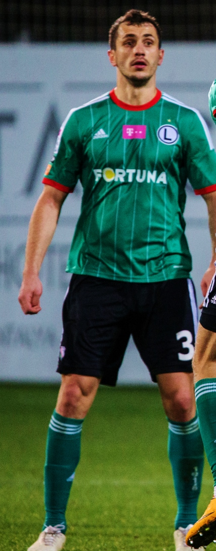 Tomasz Jodłowiec